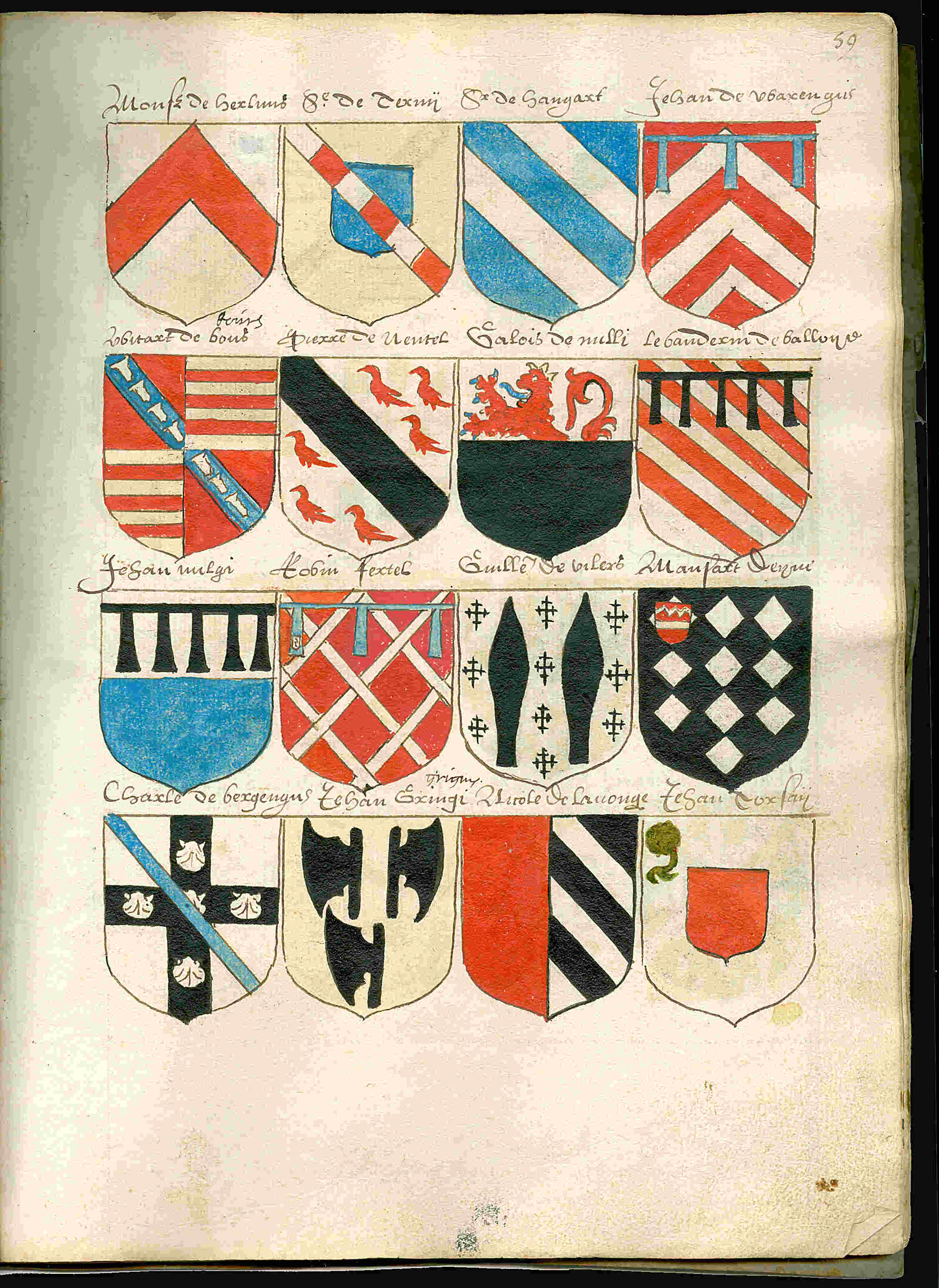 Page 59 from a copy of the Beyeren armorial / Wapenboek Beyeren from ca. 1600. The original Beyeren armorial from 1405 can be viewed at the website of the KB